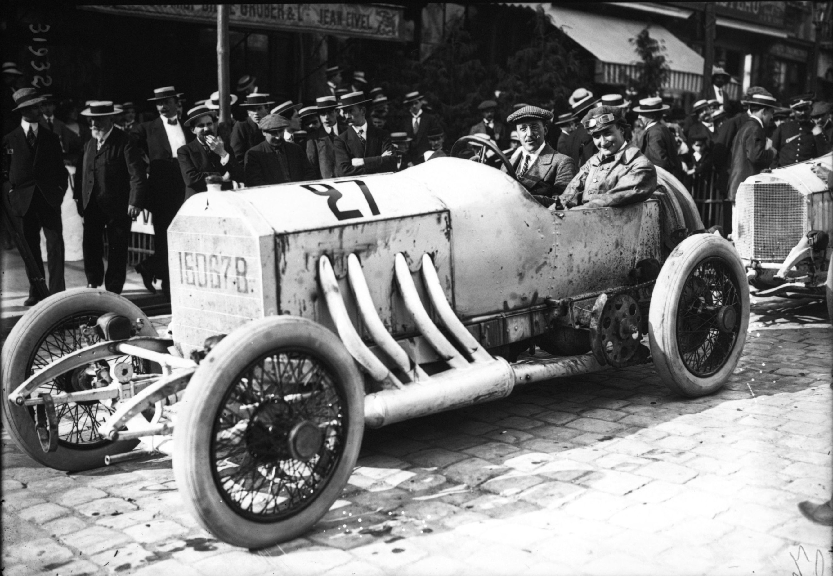 Leon Elskamp at the 1913 Grand Prix de France at Le Mans.